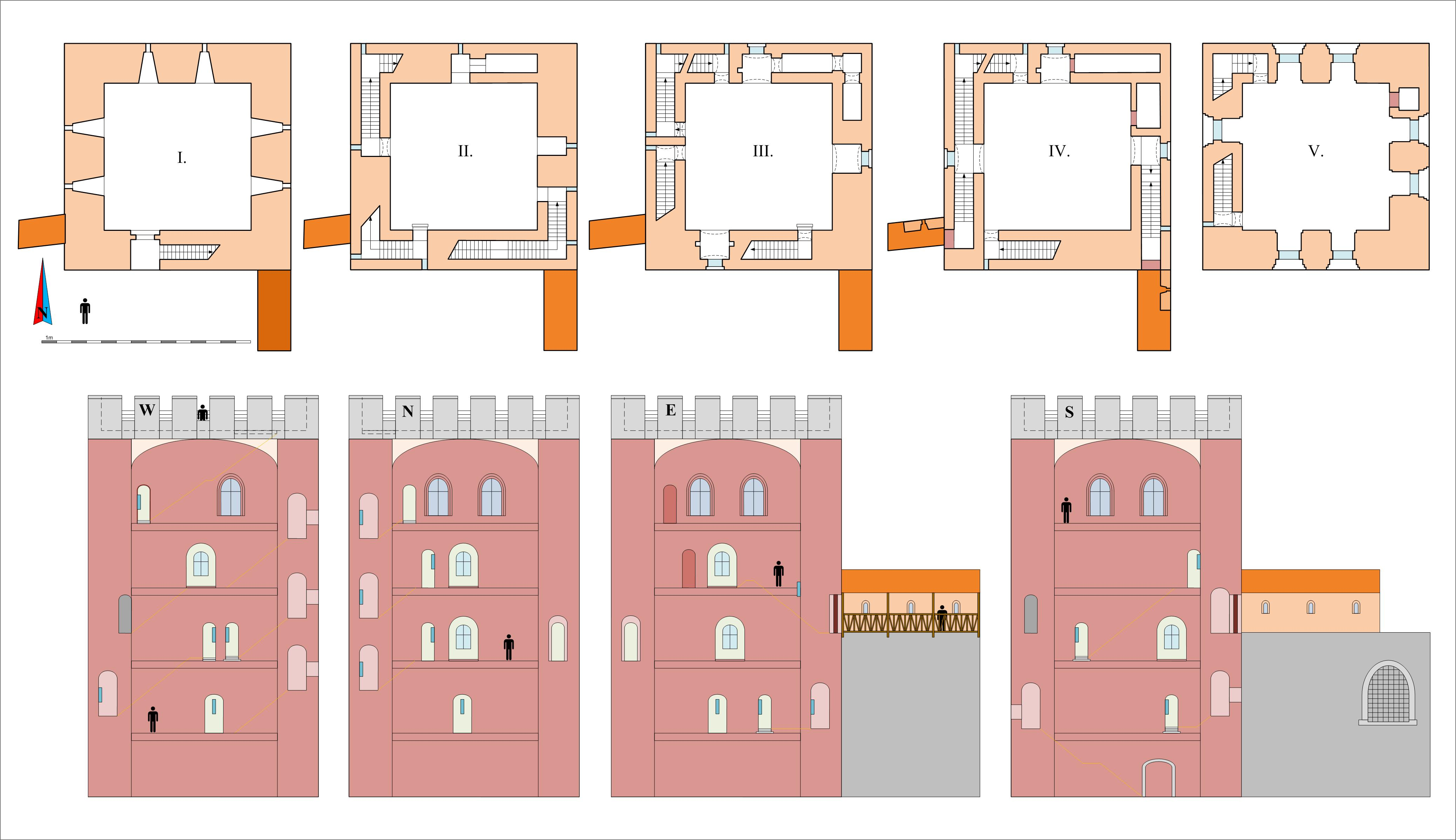 The plan and side view of Medininkai Castle northeastern tower